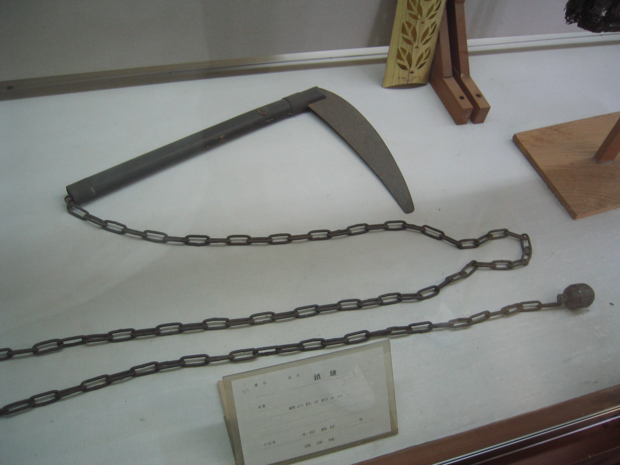 Antique Japanese kusarigama, Karatsu castle Japan.